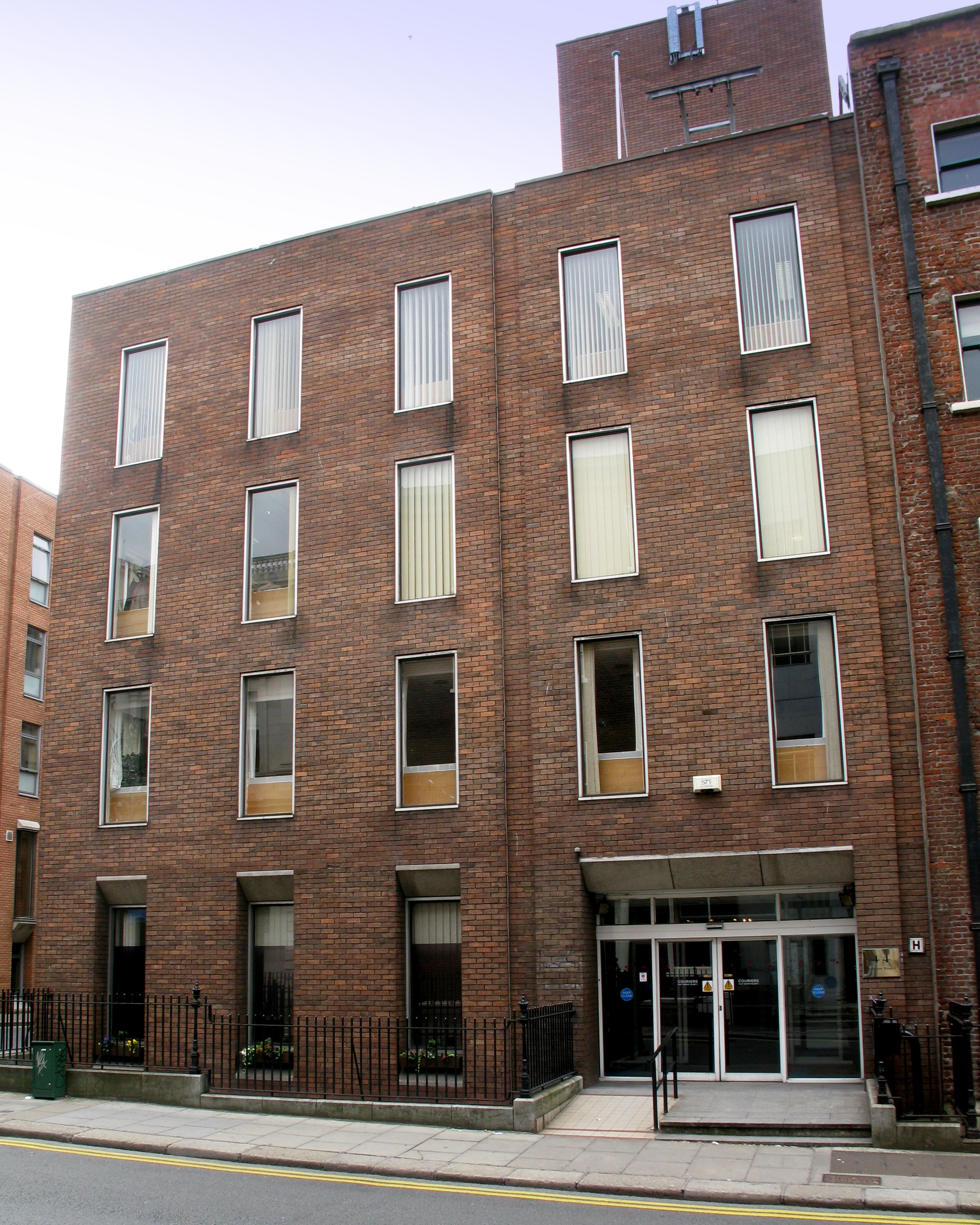 Front façade of Transport House, No. 44 Kildare Street, Dublin. Houses the head office of the Department of Transport, Tourism and Sport and formerly the Air Accident Investigation Unit